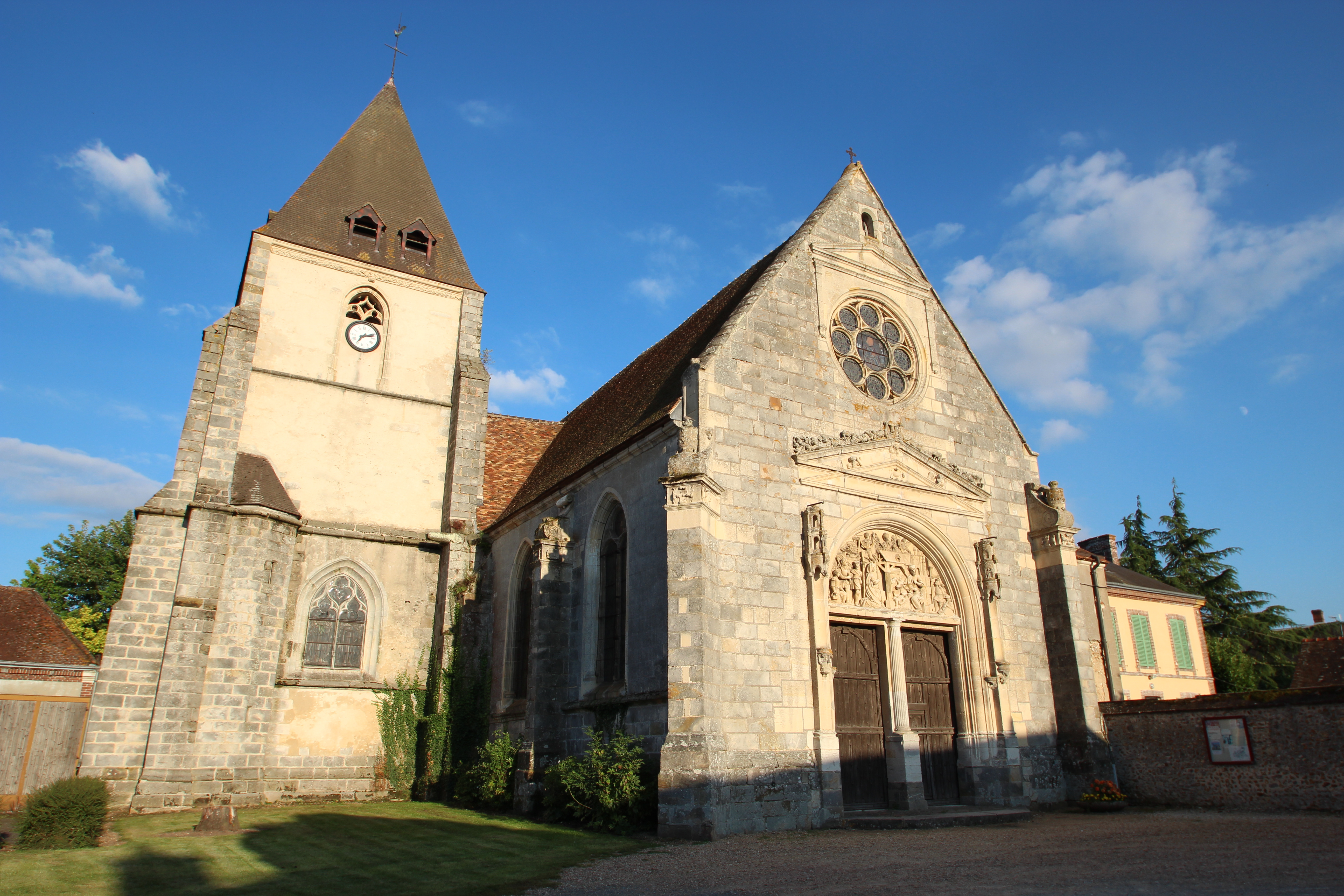 Saint-Maurice church of Villemeux-sur-Eure, France. . Object location48° 40′ 28.5″ N, 1° 27′ 44.31″ E